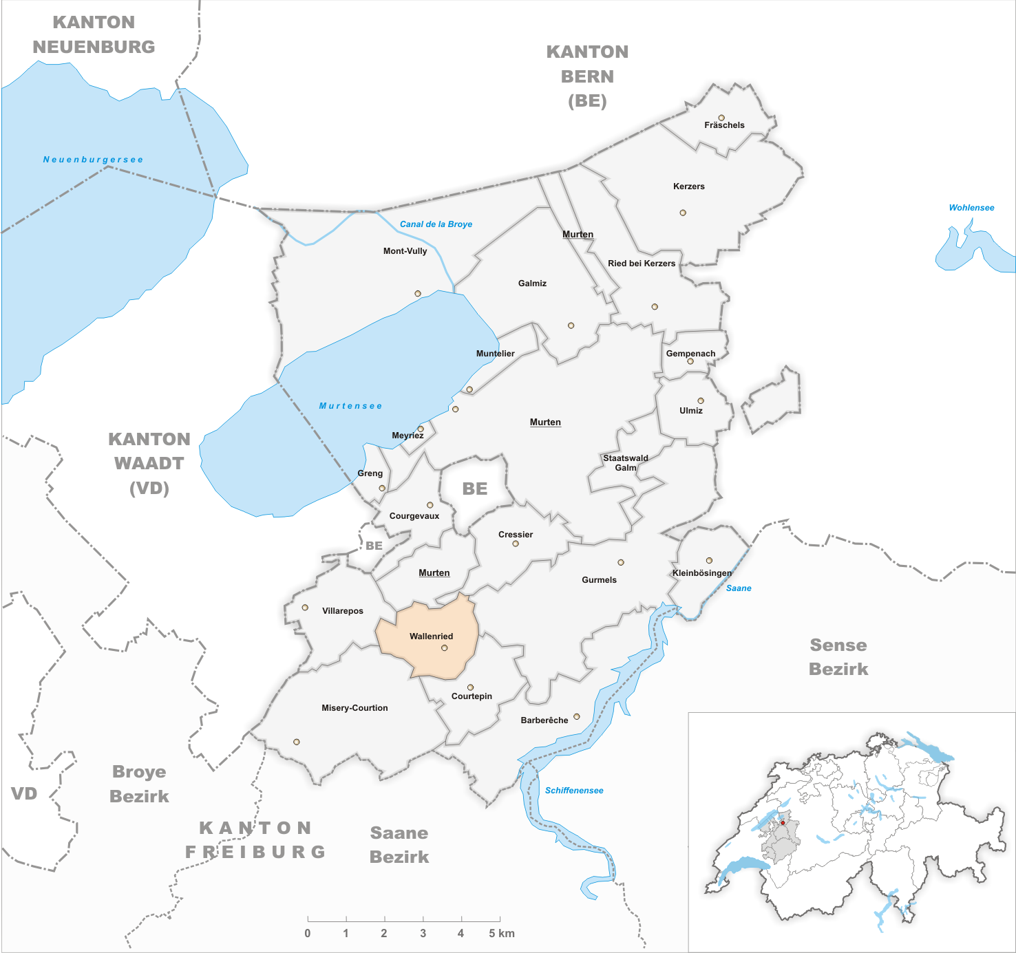 Municipality Wallenried